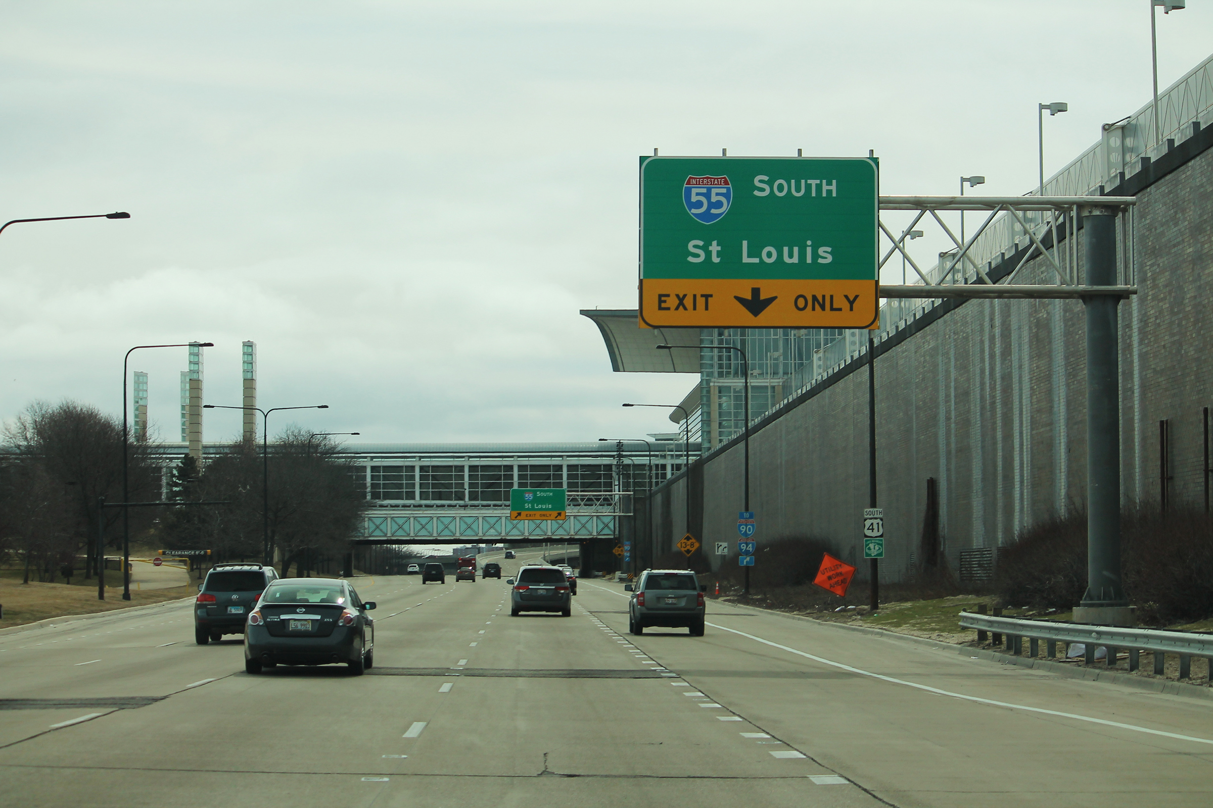 US41sRoad-McCormickPlace-US41+Int55sSigns